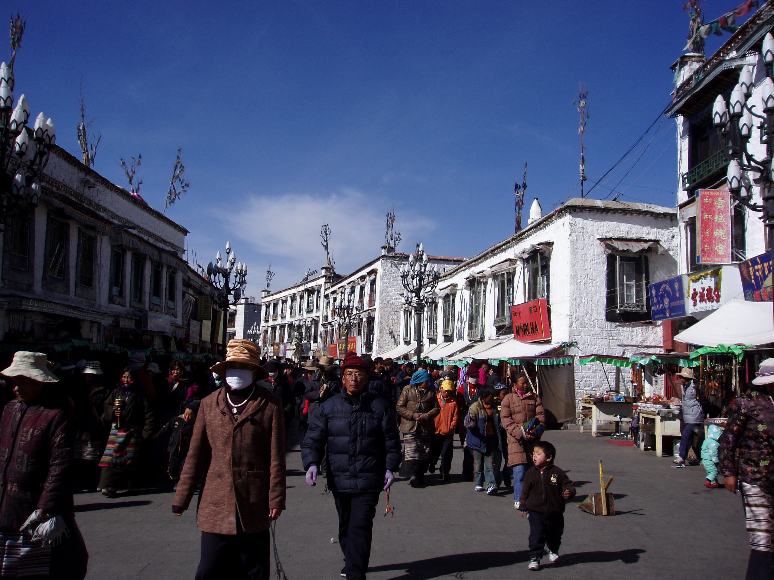 Barkor Street in Lhasa, Tibet